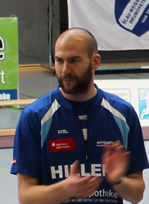 Sebastian Schöttler